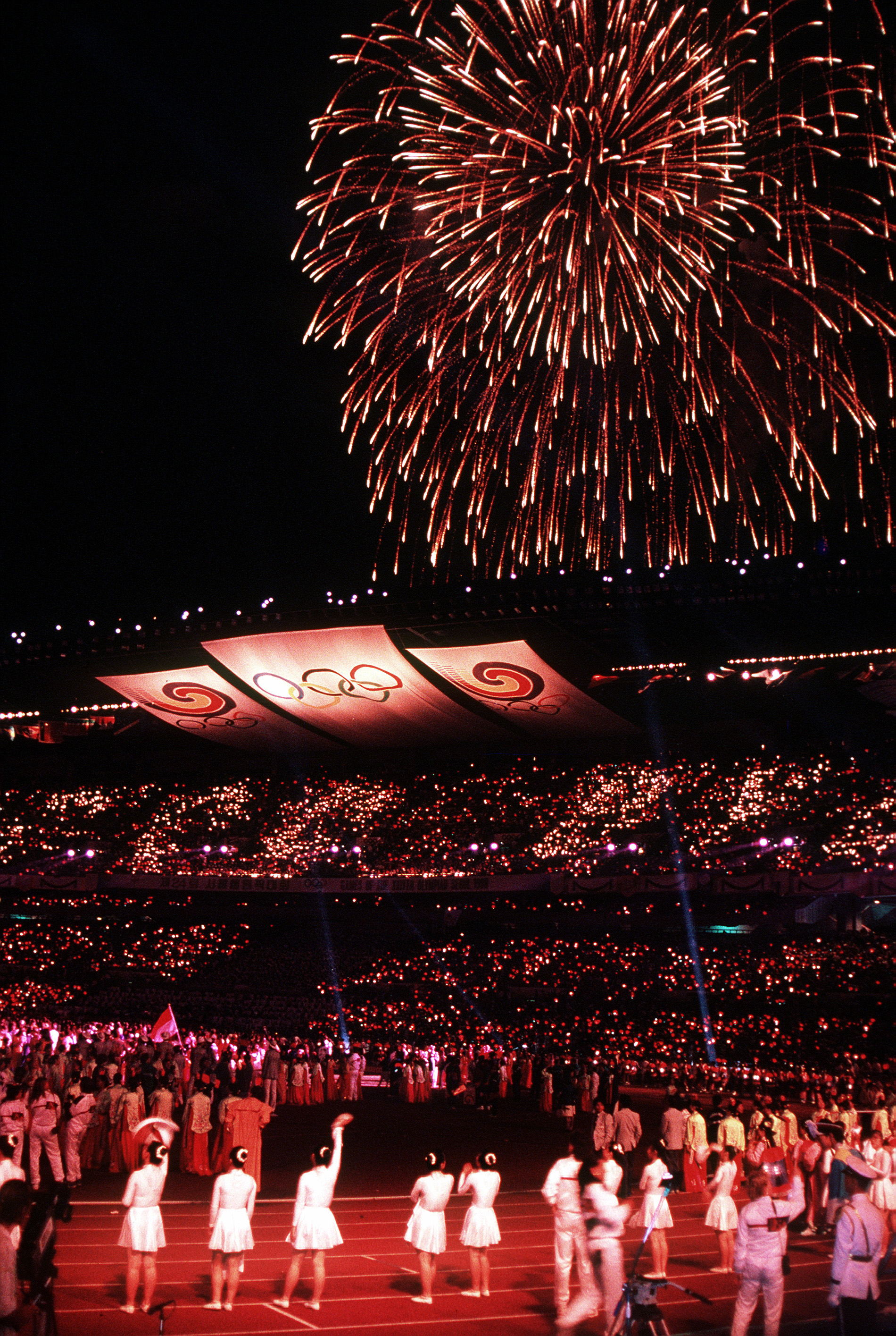 Fireworks burst over the closing ceremonies of the XXIVth Olympiad.